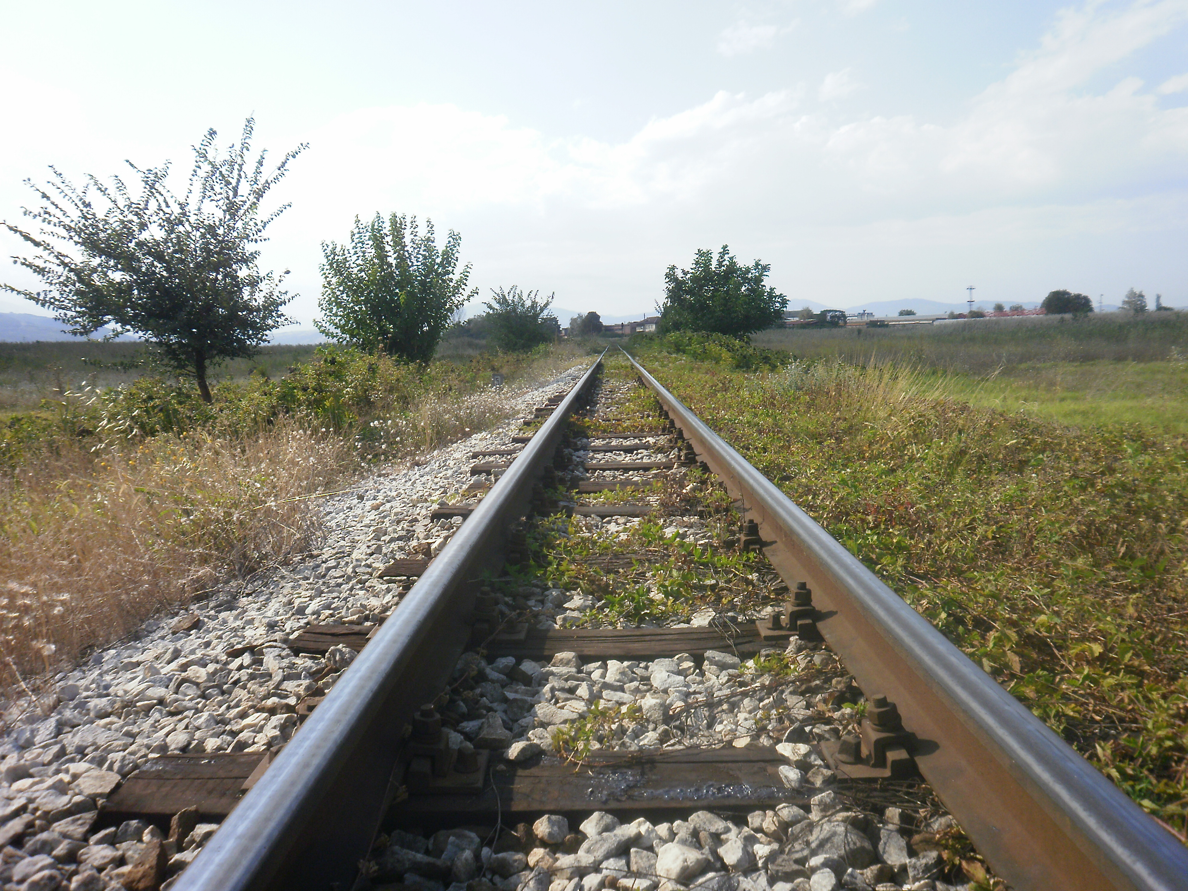 Narrow-gauge railway Septemvri–Dobrinishte, Bulgaria.